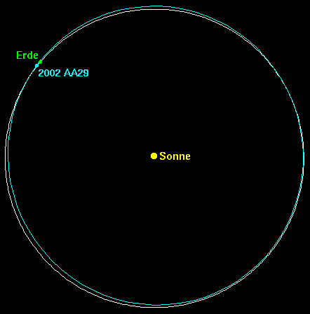 Orbits of 2002 AA29 and Earth around the Sun viewed vertical to the ecliptic. The graphic shows the relative positions of both bodies to each other in year 2001.